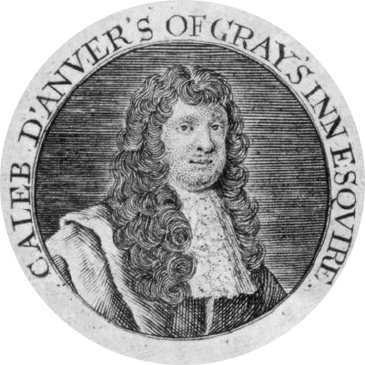 Caleb D'Anvers (Nicholas Amhurst), Poet and Political Writer etching and engraving from The Craftsman by Caleb D'Anvers